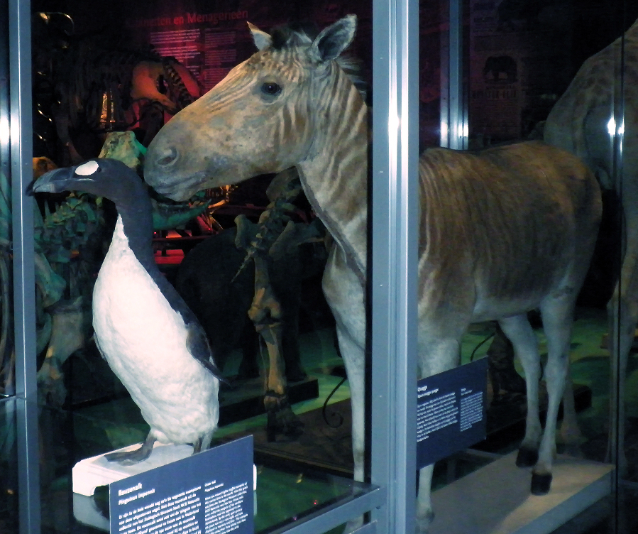 The Quagga exhibit at the Naturalis in Leiden, The Netherlands. This is believed to have been the last quagga alive. It passed away at the Amsterdam Artis Zoo in 1883. In front is the Leiden Auk, Great Auk specimen no. 57.